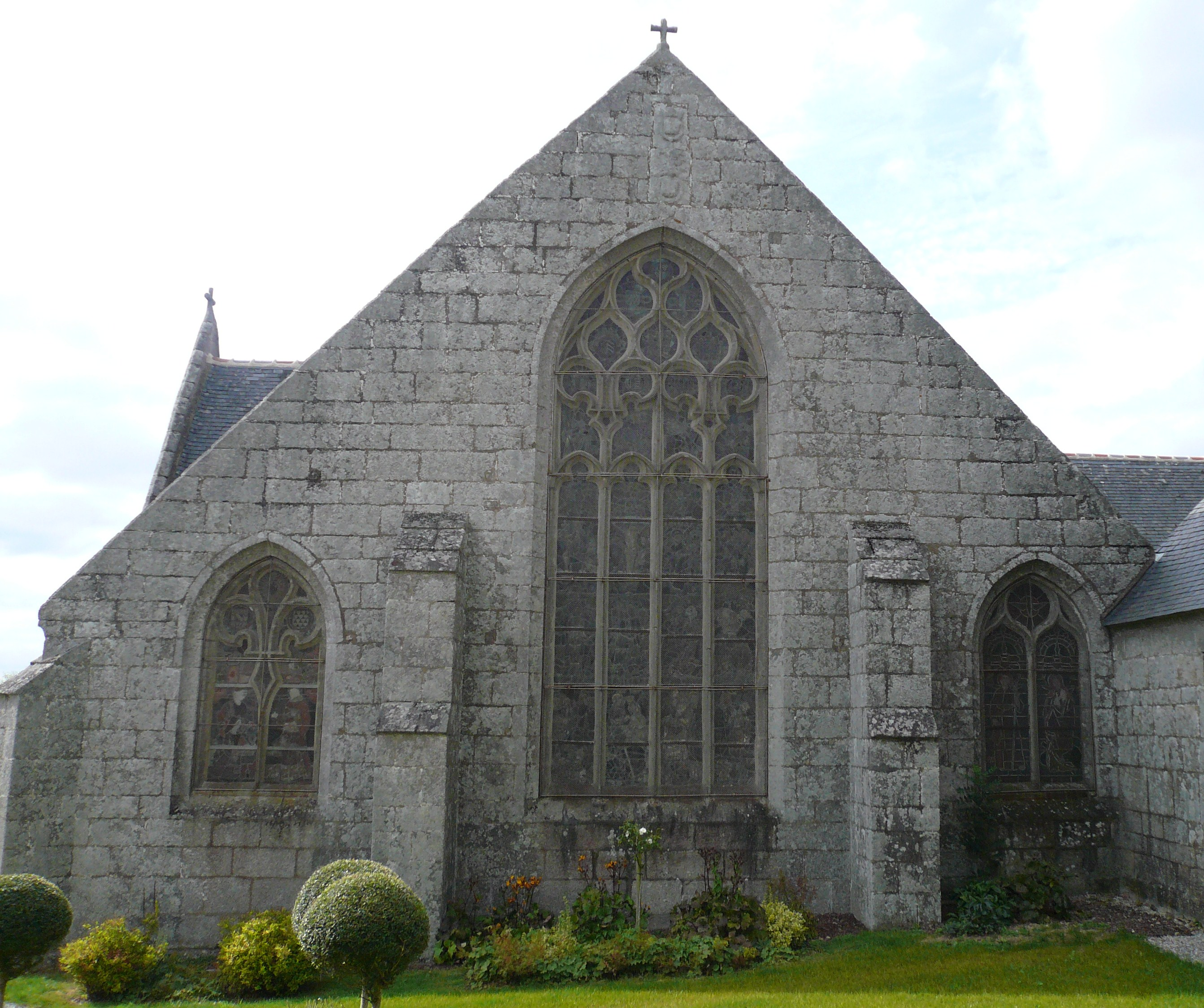 Chevet of Saint Gwenael's church in Ergué-Gabéric, Finistère, Brittany, France. .